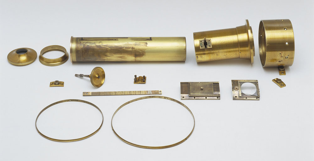 AuthorGiovanni Battista AmiciDescription